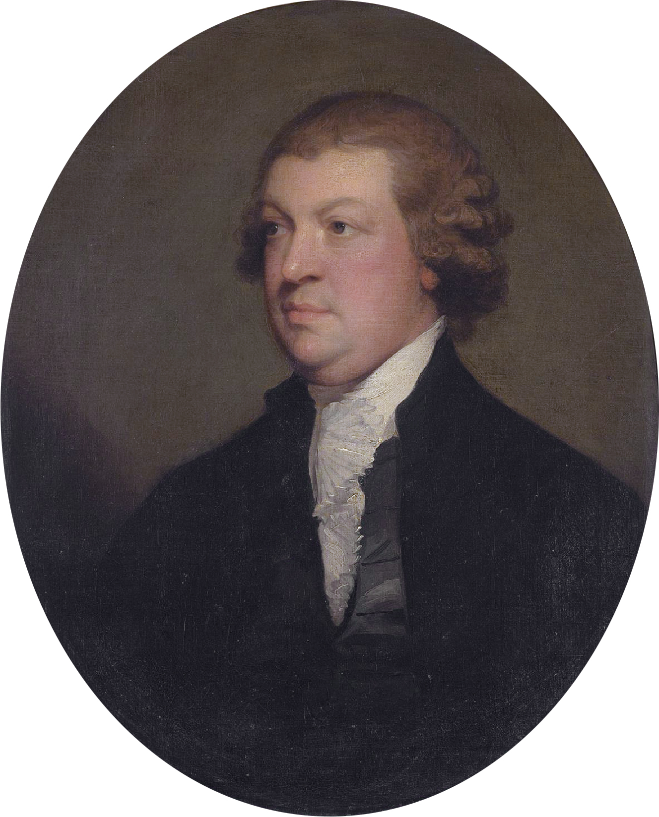 John Scott, 1st Earl of Clonmell oil on canvas 71.5 x 59 cm